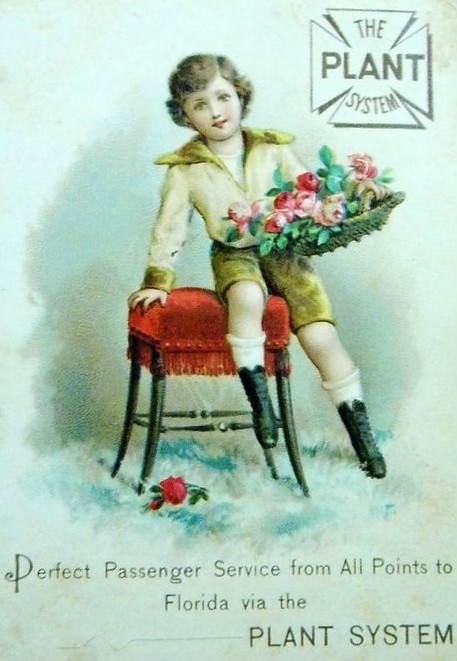 Advertising trade card for The Plant System railroad which once served Florida and the Southeast United States.